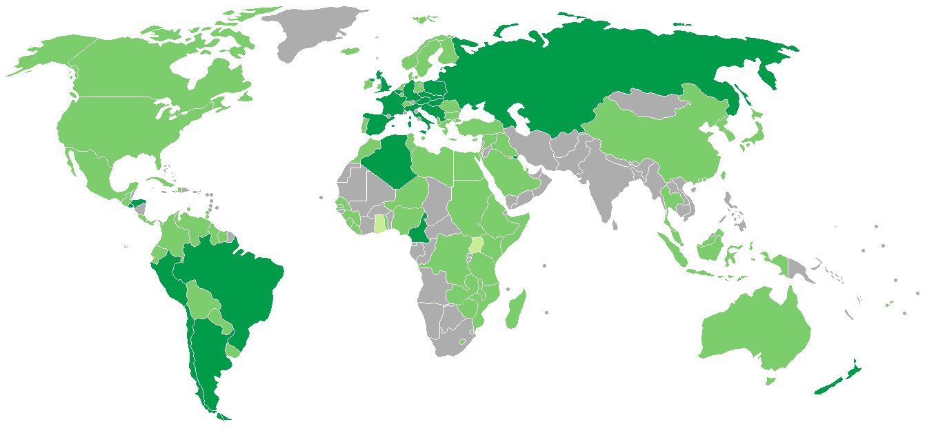 Qualification for the 1982 FIFA World Cup Country didn't participate Country withdrew or entry wasn't accepted by FIFA Country participated in the qualification tournament Country qualified for the finals